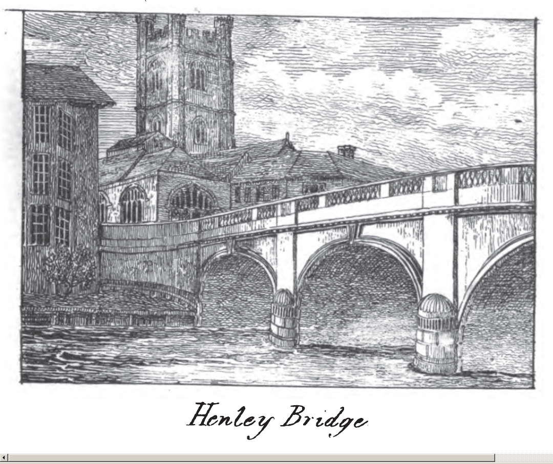 Illustration of Henley Bridge (UK). Book in the public domain (image extracted from Google books)